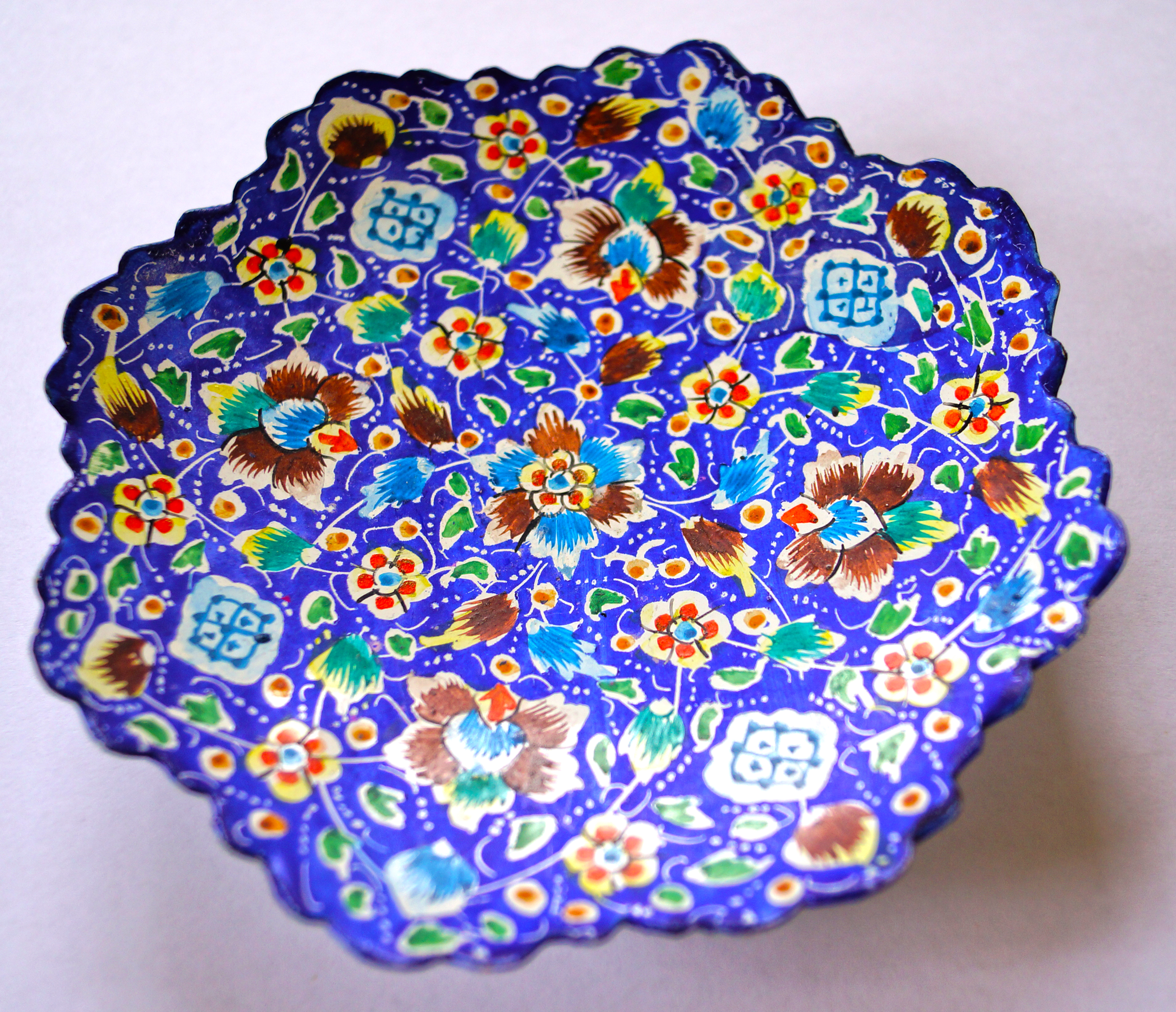 An example of Mīnākārī from Iran.